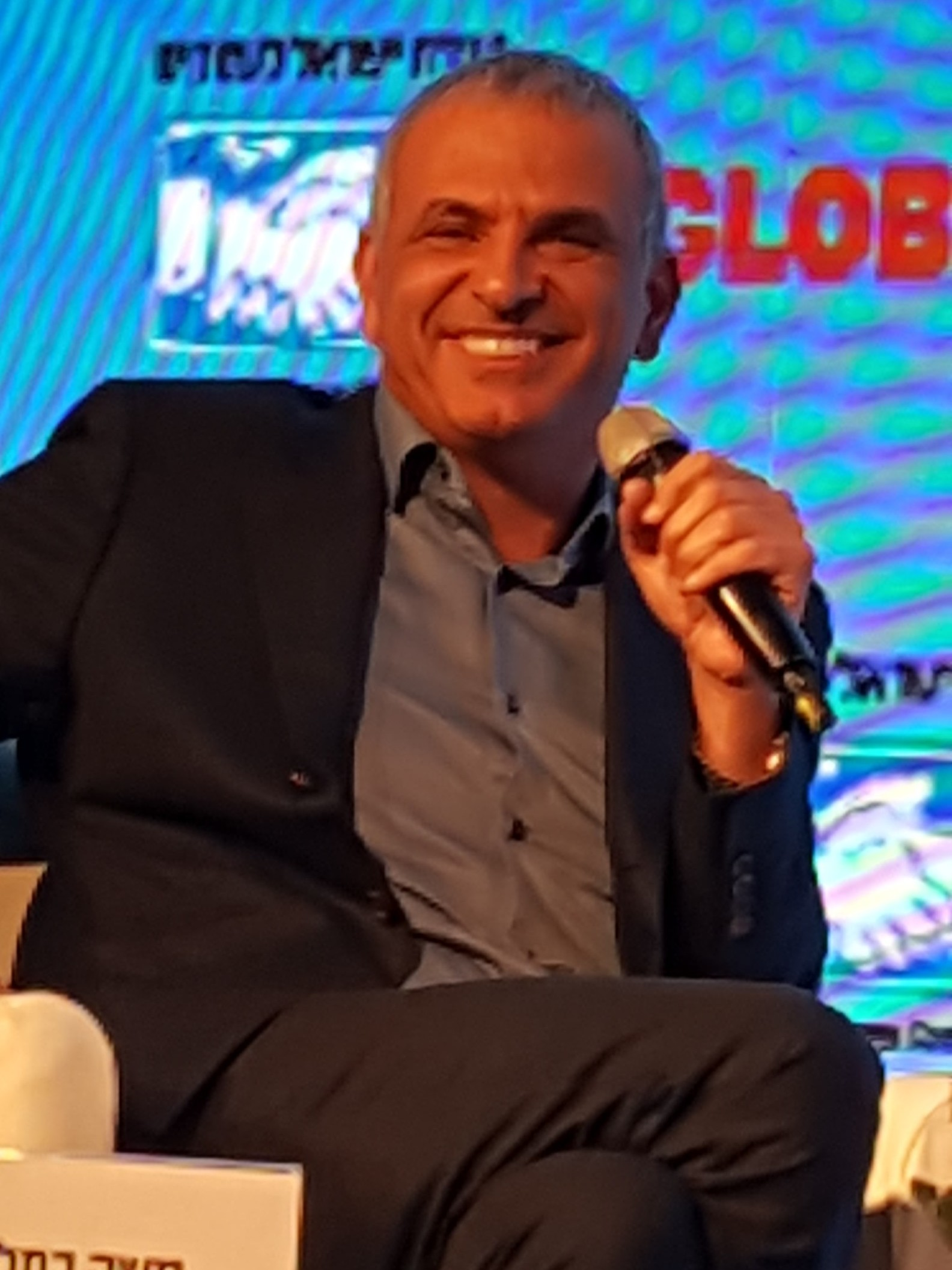 Israel Business conference 2016